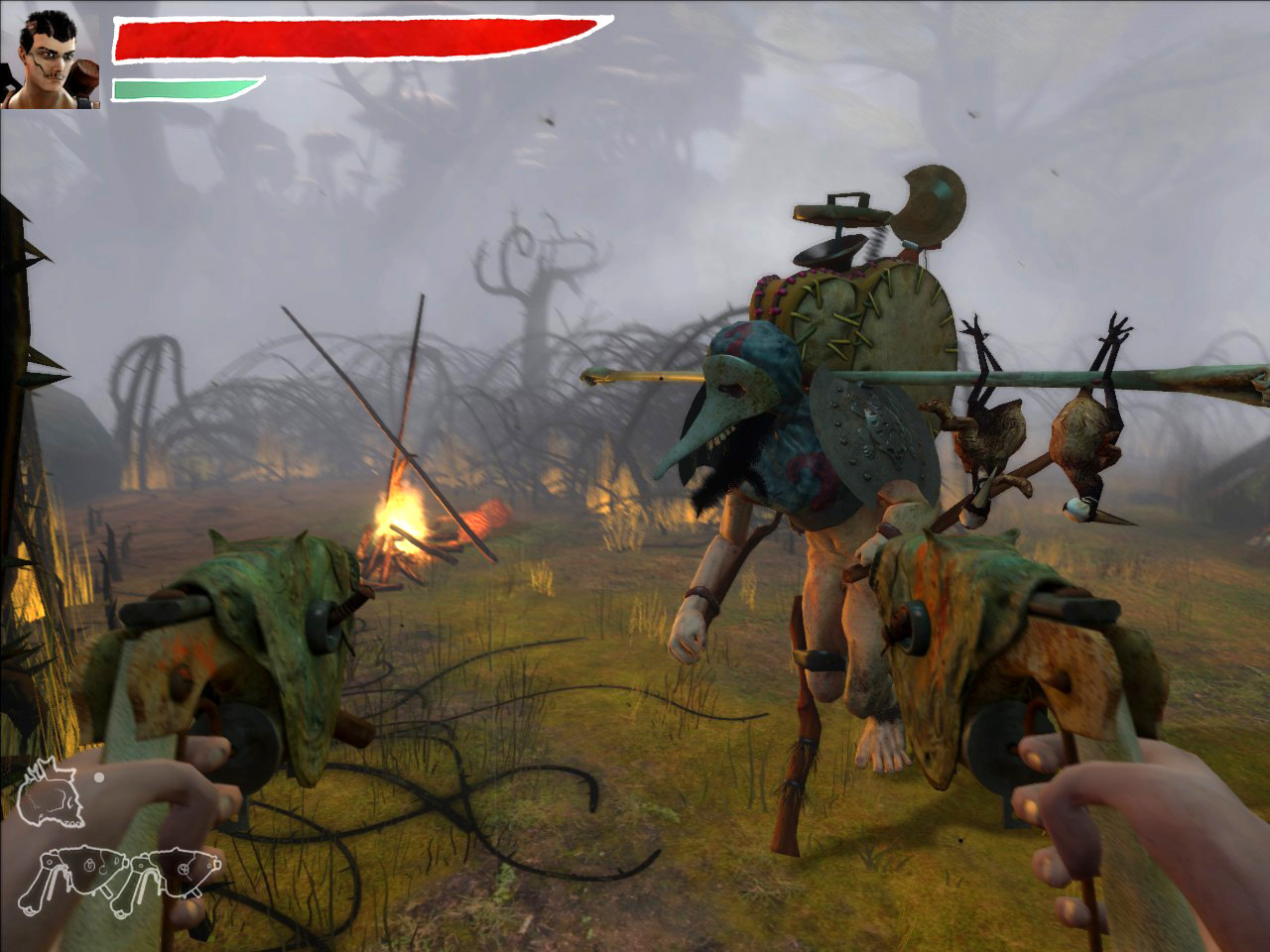 Zeno Clash screenshot. Released in 2009, the game was developed by ACE Team and is powered by Valve Software's Source engine.